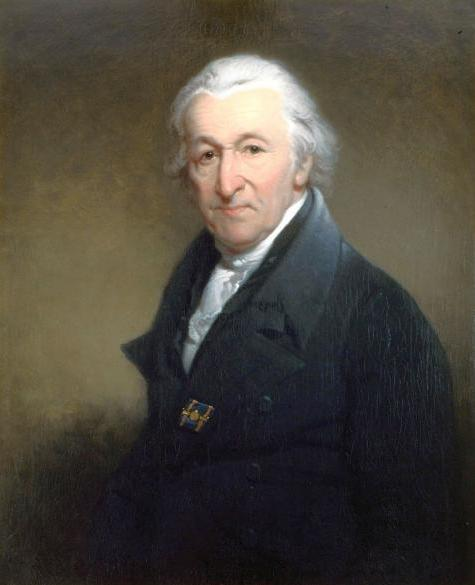 Martin van Marum was the first director of the Teylers Museum. This is one of two paintings of him made by Charles Howard Hodges. The other hangs in the Dutch Society for Science, in Haarlem.